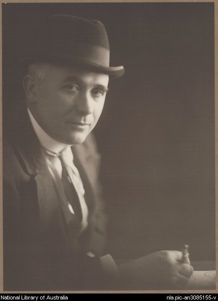 Photo of Edward Dyson taken 1927 by May Moore